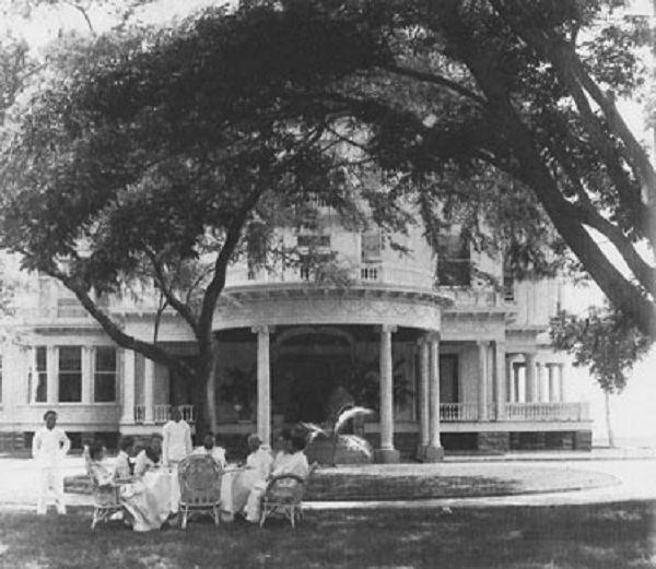 James B. Castle home in Waikiki.